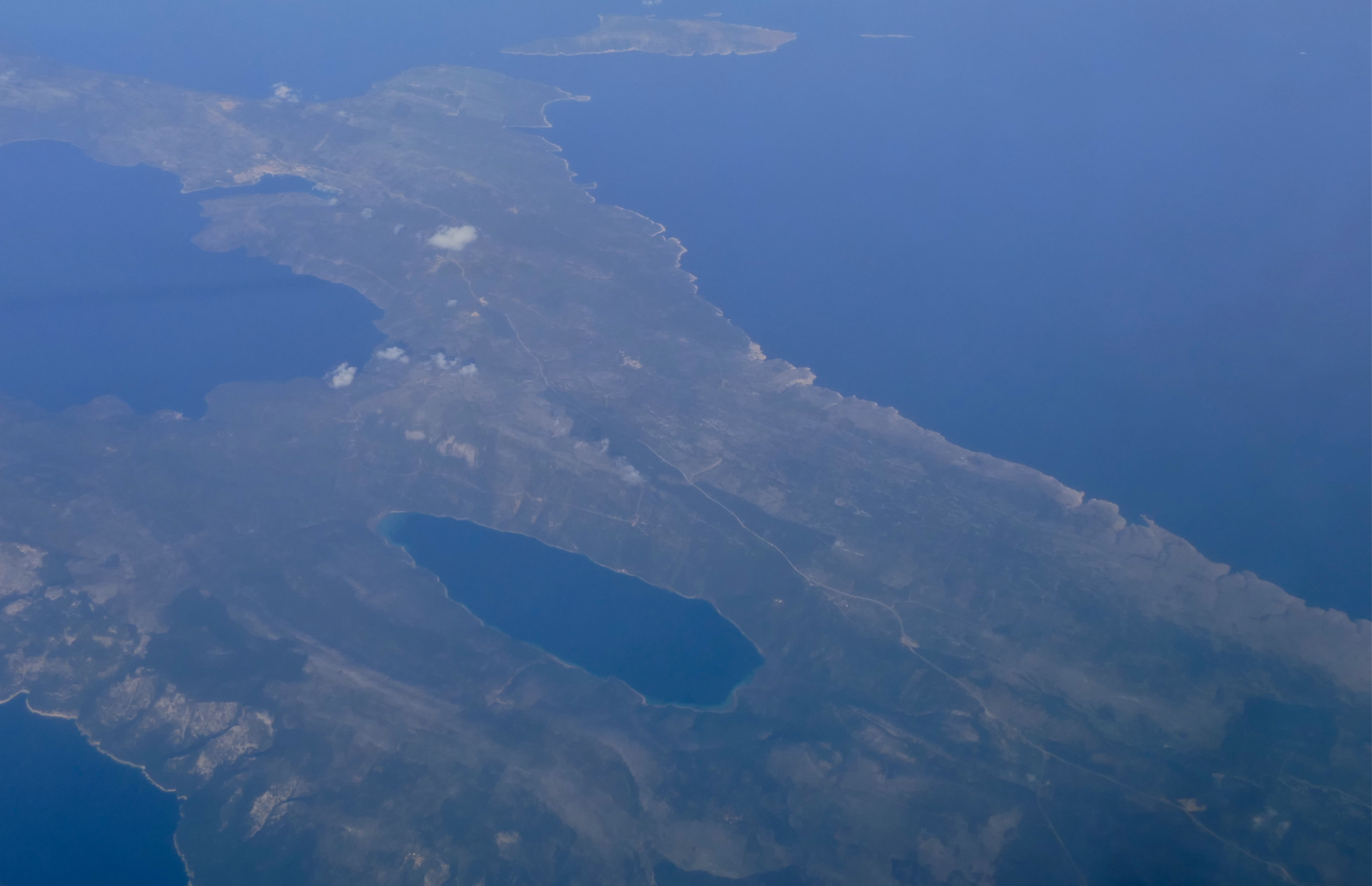 Cres Island, Dalmatia, CROATIA